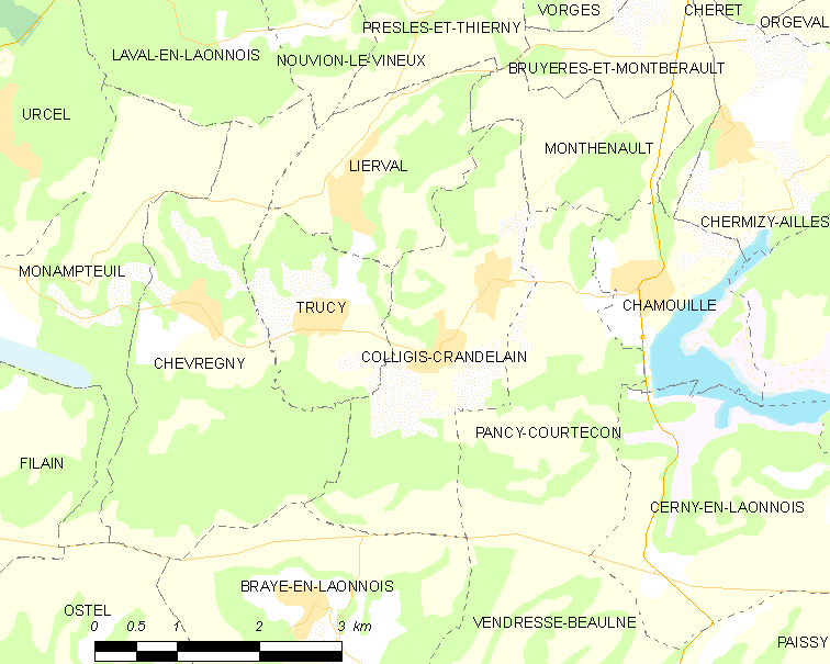 Map of French commune: Colligis-Crandelain Map commune FR insee code 02205.png